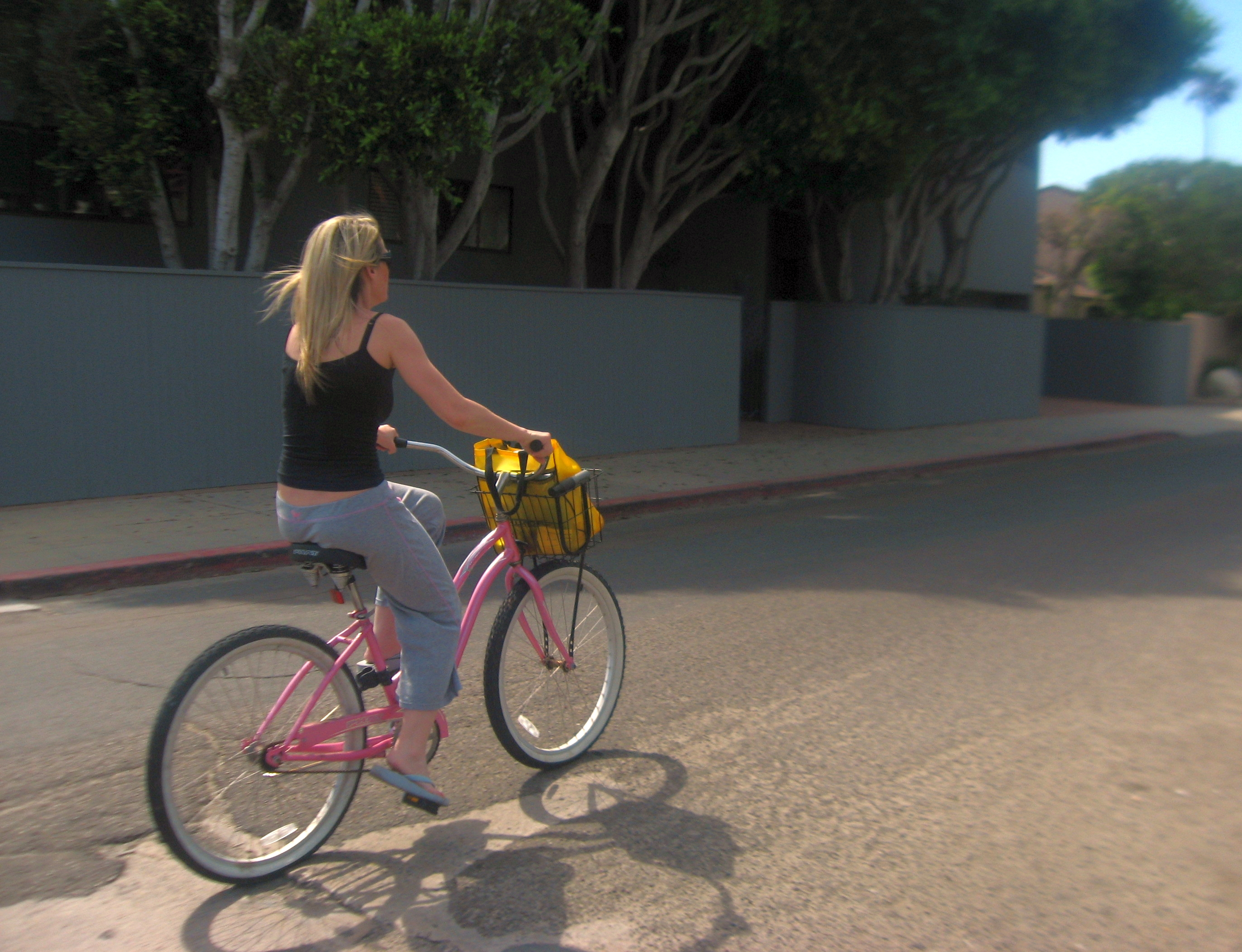 California Beach Cruisers chic #3